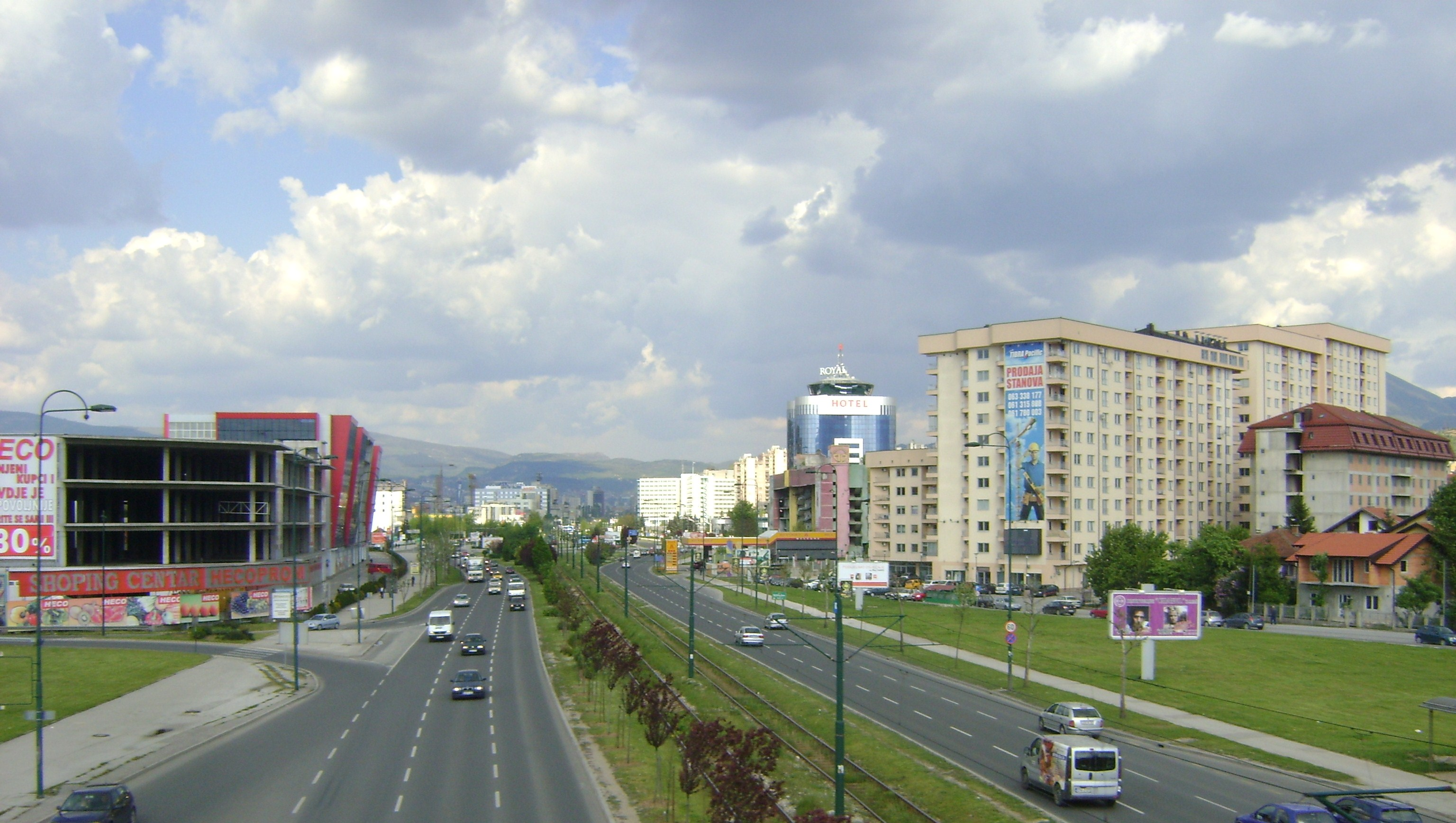 Zmaja od Bosne street (Sarajevo)